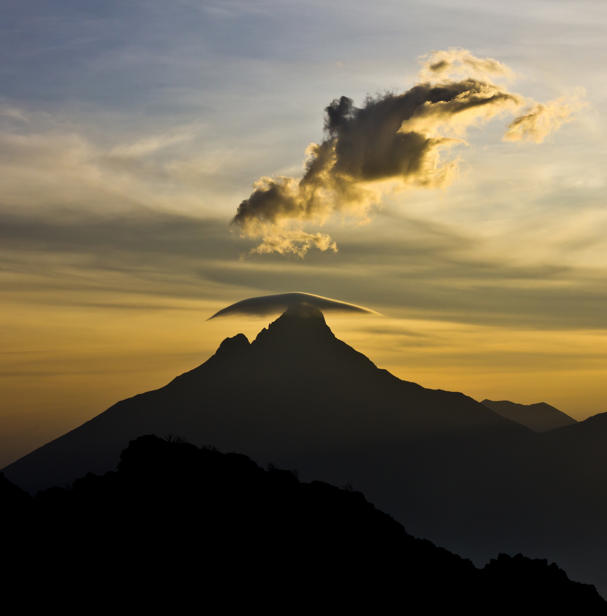 The summit of Mont Mikeno in the Virunga Mountains. Altocumulus lenticularis clouds form around the top of the mountain.